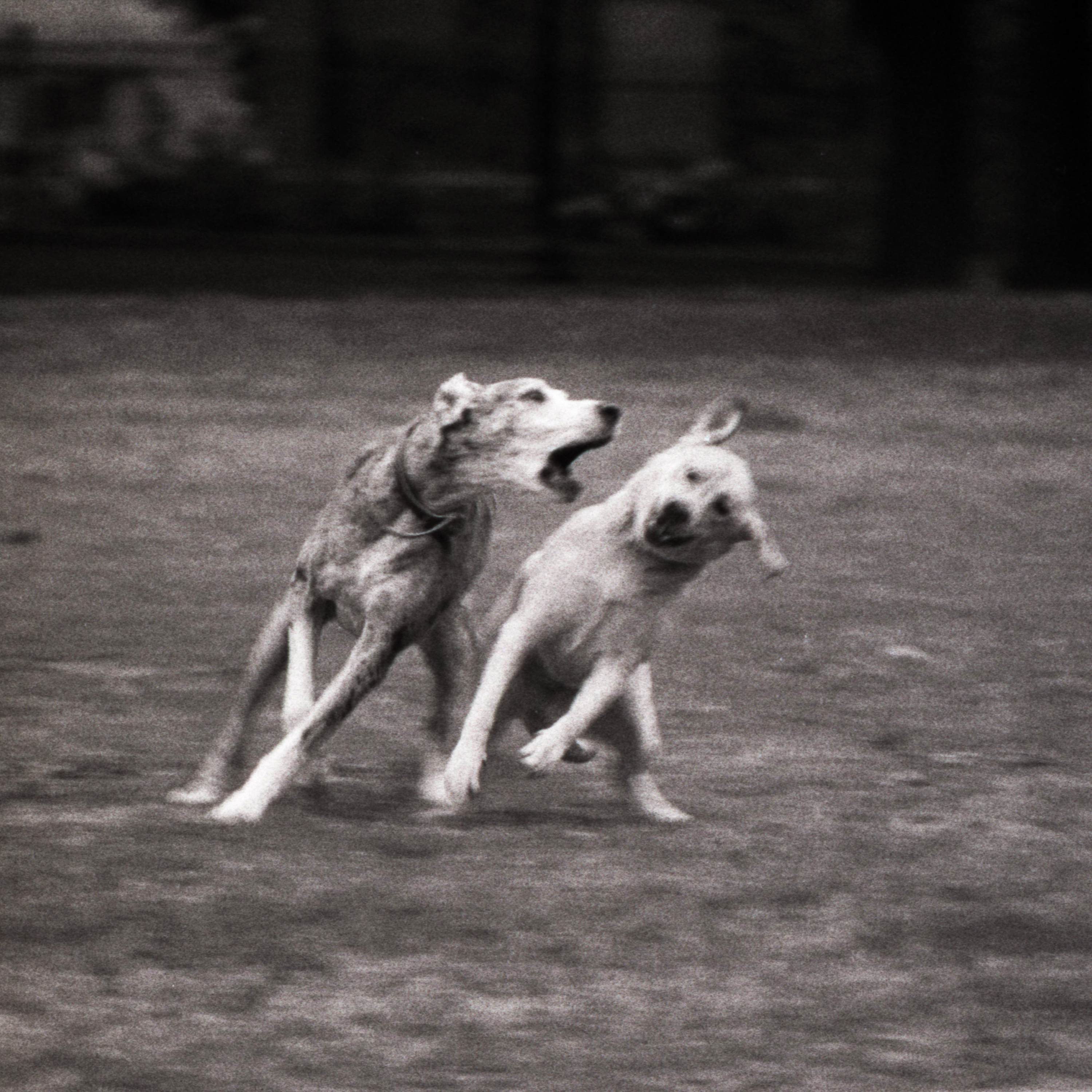 Dogs in Grange Park, Toronto, Canada.